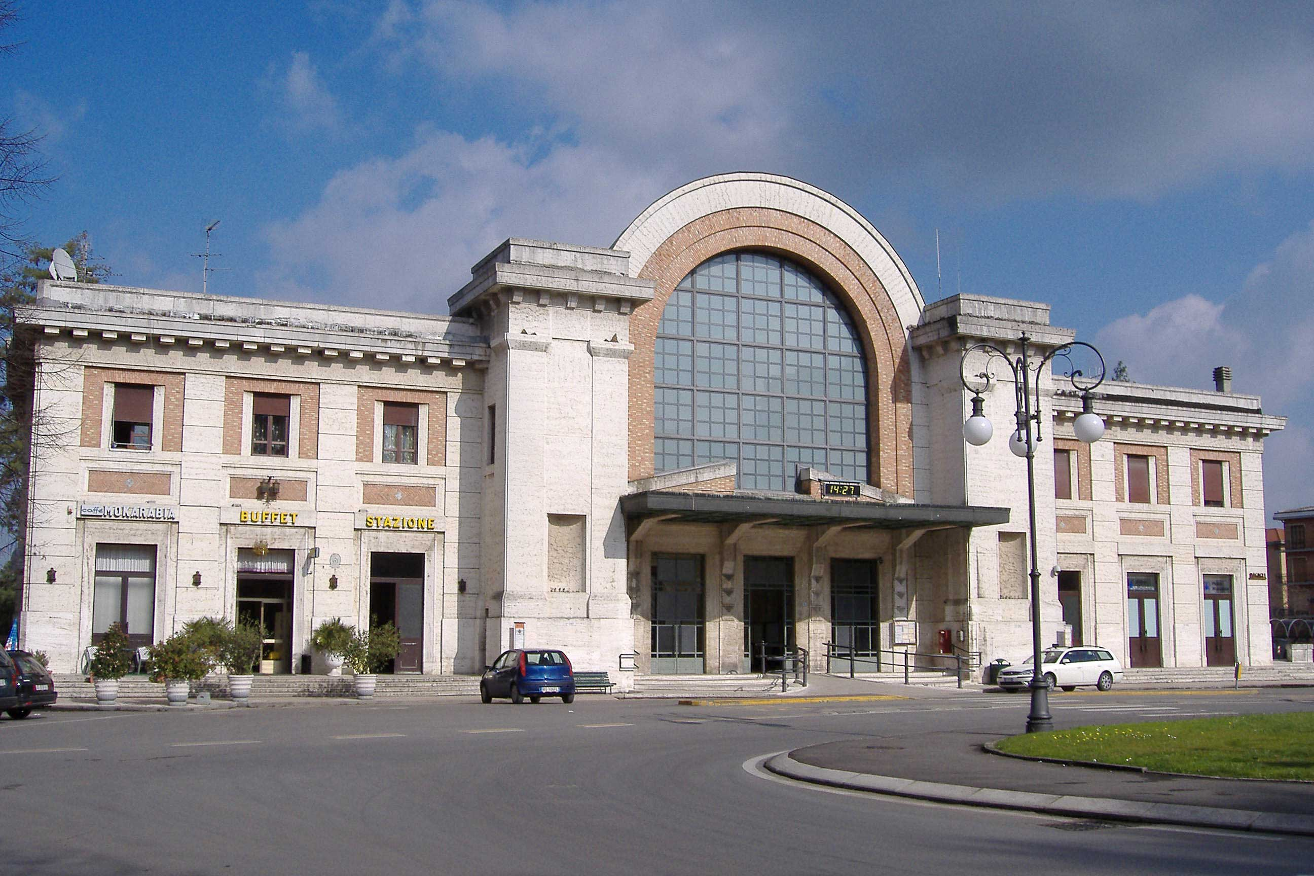 Railway station of Salsomaggiore Terme (Italy), Via Salvo D'Acquisto